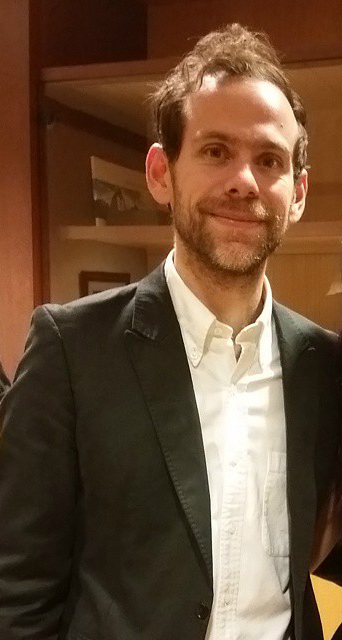 Image I took of Bryce Dessner in 2015 at the Cincinnati Music Hall